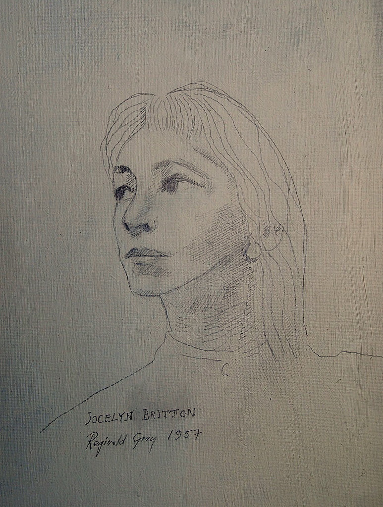 drawing on canvas